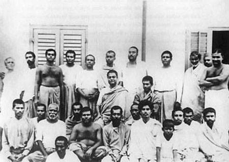 Swami Nischayananda, sitting in the front most row. At the back is seen Swami Vivekananda